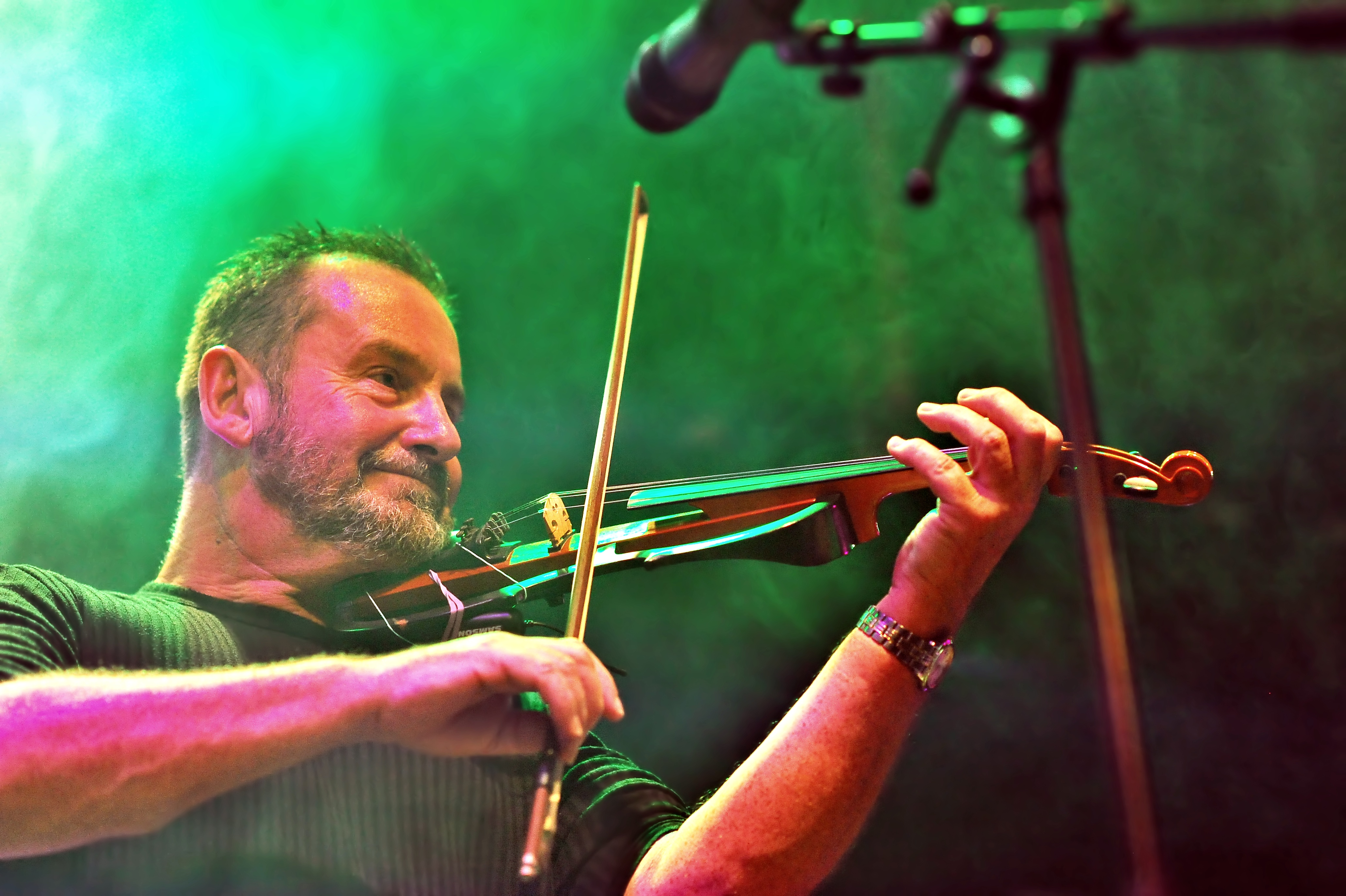 Anniversary festival: 30 Years Rieckhof Hamburg-Harburg. I was invited to take photographs by the managing director of the Rieckhof, Jörn Hansen